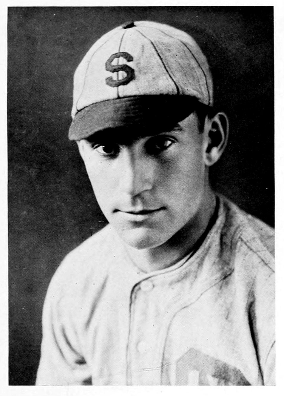 Yearbook photo of George Howard "Buck" Redfern.